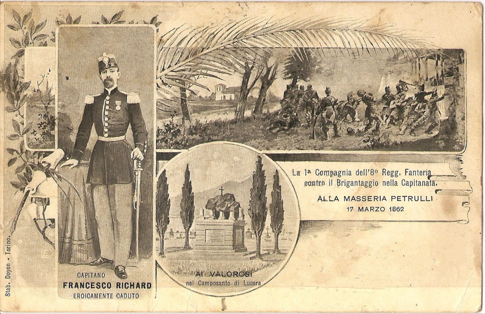 Postal card of "8th reggimento di Fanteria" in memoriam of captain Francesco Richard killed at Masseria Petrulli 1862 by brigants